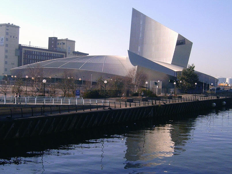 The Imperial War Museum North in Trafford, overlooking the Manchester Ship Canal, seen from Salford Quays.